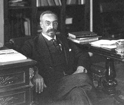 Ivan Ivanovich Tolstoy (1858-1916), remarkable Russian scientist, statesman and public figure, an organizer of science, art and public education. Photo early 1910s.